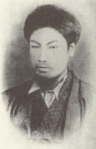 Japanese right-wing political leader Mitsuru Tōyama (頭山満, 1855–1944) at age 25